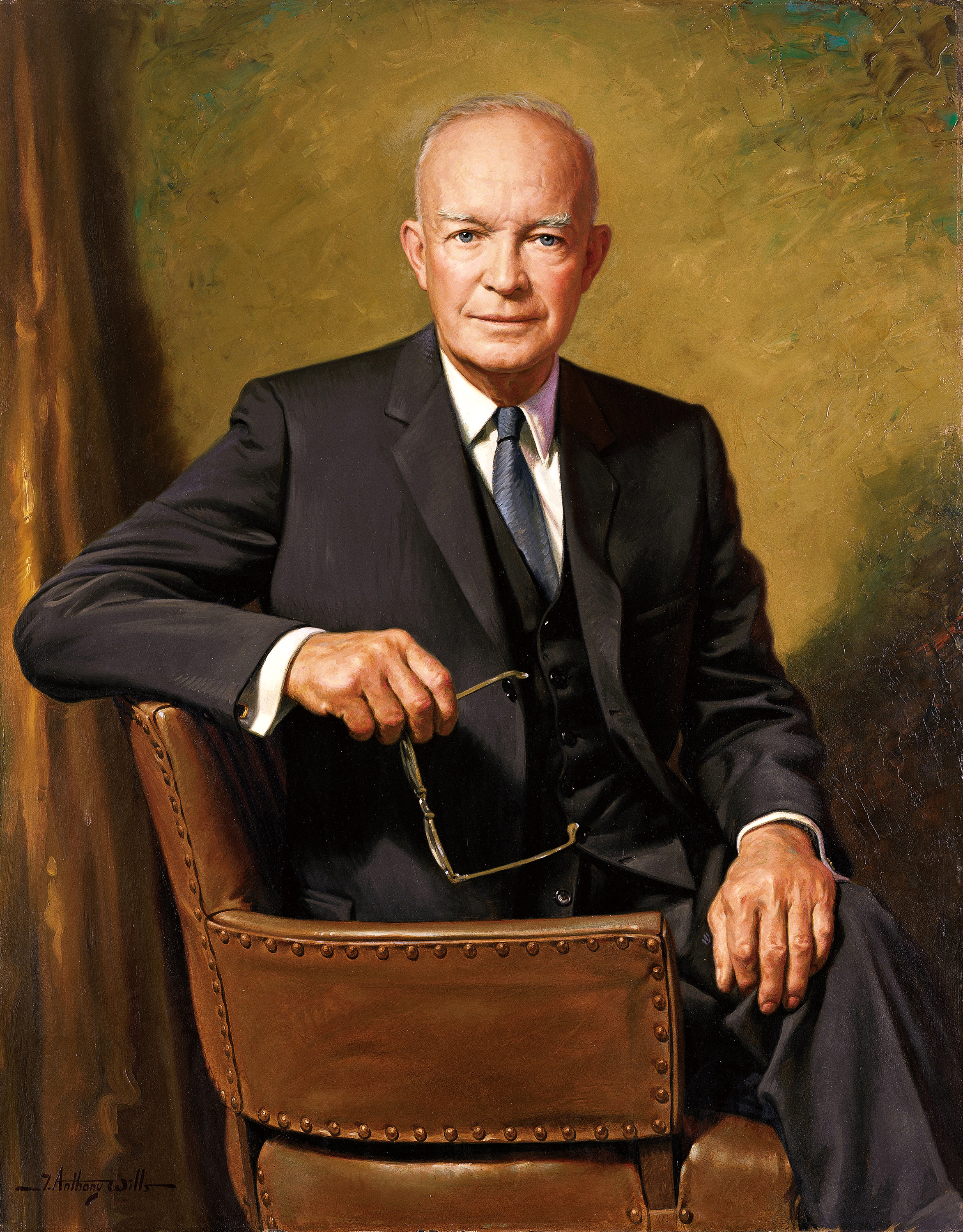 Dwight D. Eisenhower. White House portrait painted by James Anthony Wills